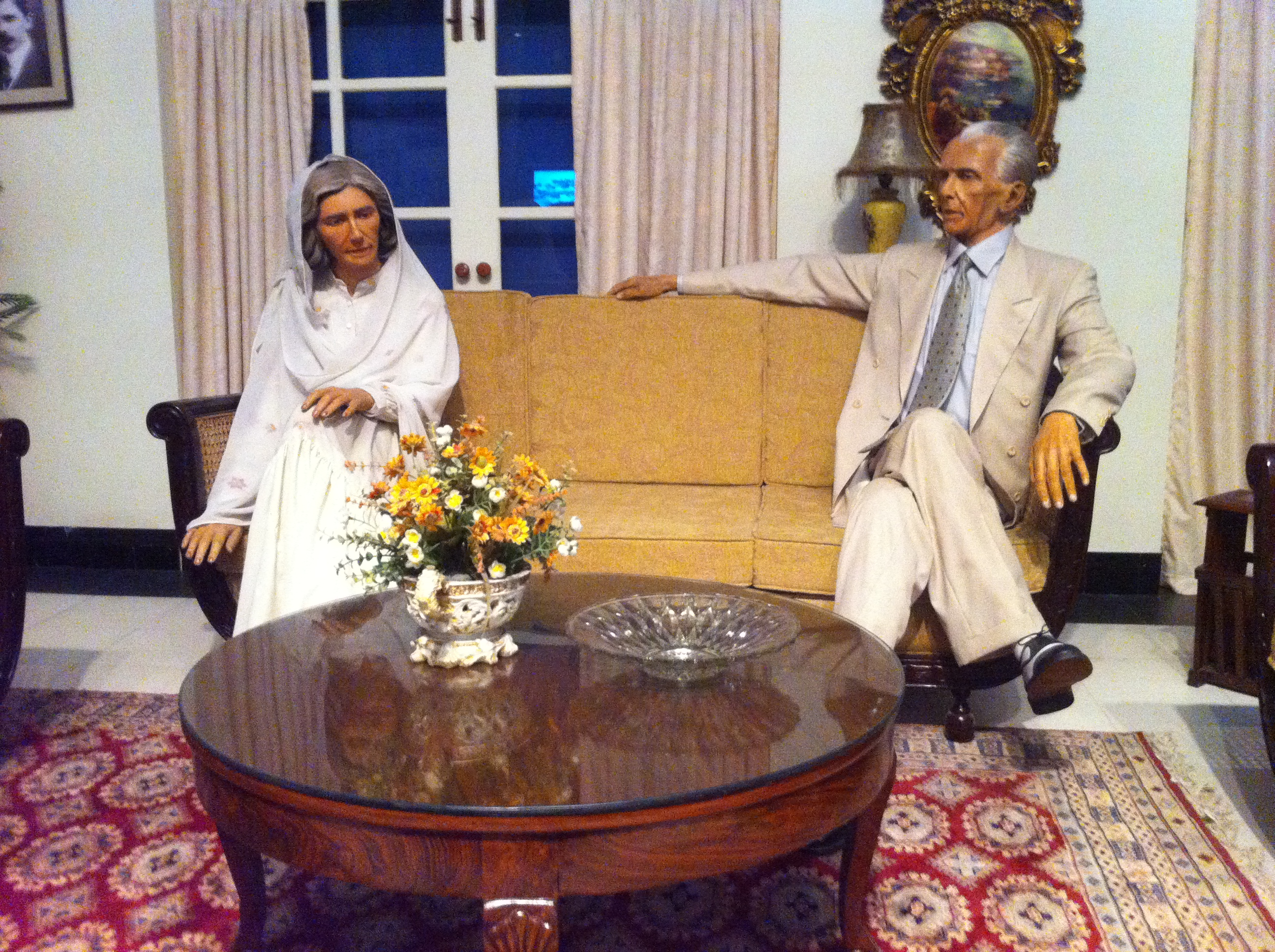 Pakistan Monument This is a photo of a monument in Pakistan identified as the ICT-4